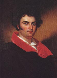 Description: Contemporary oil portrait of the tenor Giovanni Battista Rubini (1794-1854) Artist unknown Source: Scuola Libera di Canto Lirico Giovanni Battista Rubini